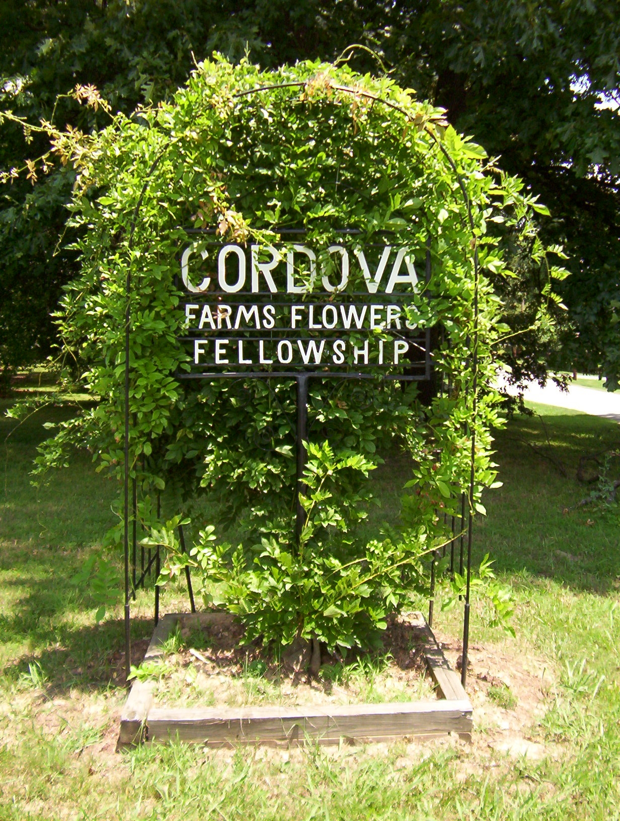 "Farms Flowers Fellowship" sign on Rocky Point Road at Macon Road in Cordova, Tennessee. "Farms Flowers Fellowship" used to be the motto of the town when they grew flowers for the Memphis, Tennessee area. I made the photo myself, feel free to use it.